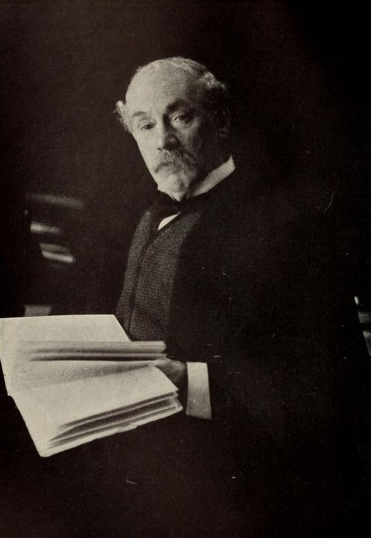 Picture of Caspar Purdon Clarke